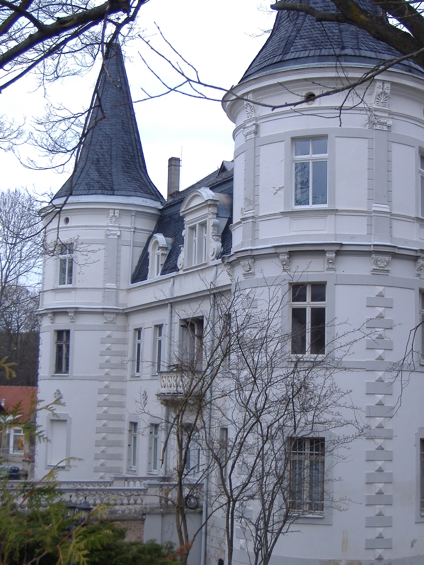 Castle of Leubnitz (Saxony, Germany)